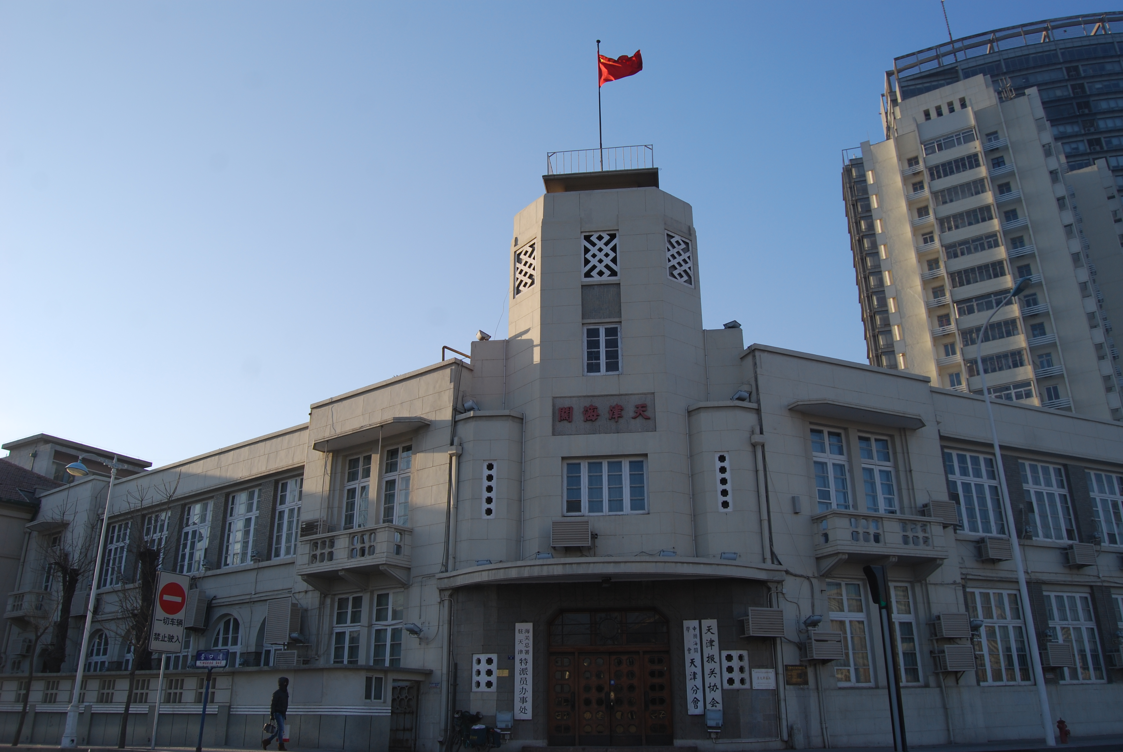 Former Tianjin Custom House in Yingkou Dao No. 2–4, Heping District, Tianjin